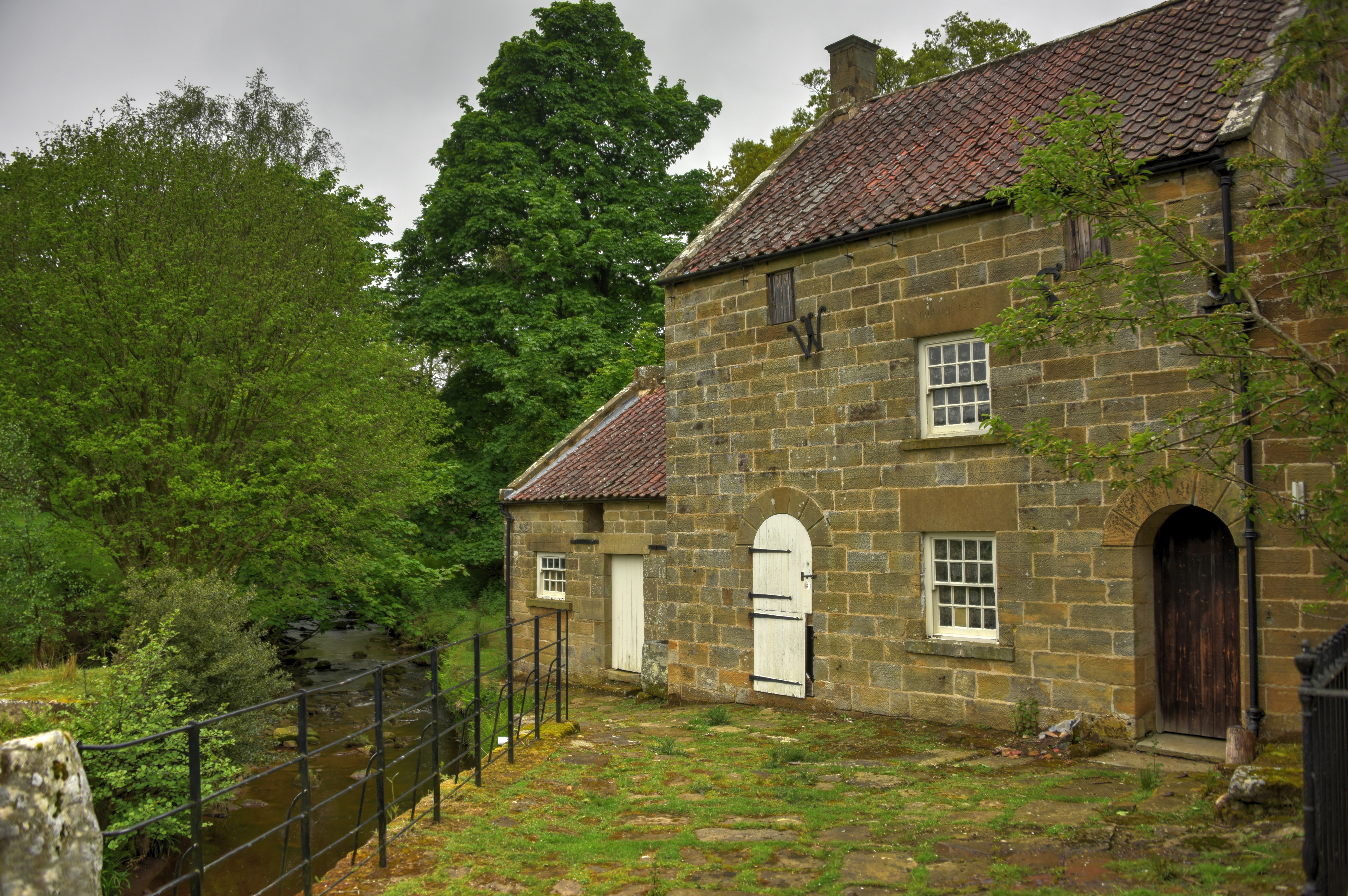 Bransdale Mill, a former mill in the North York Moors, which inspired local poet Herbert Read when writing his book "The Green Child."